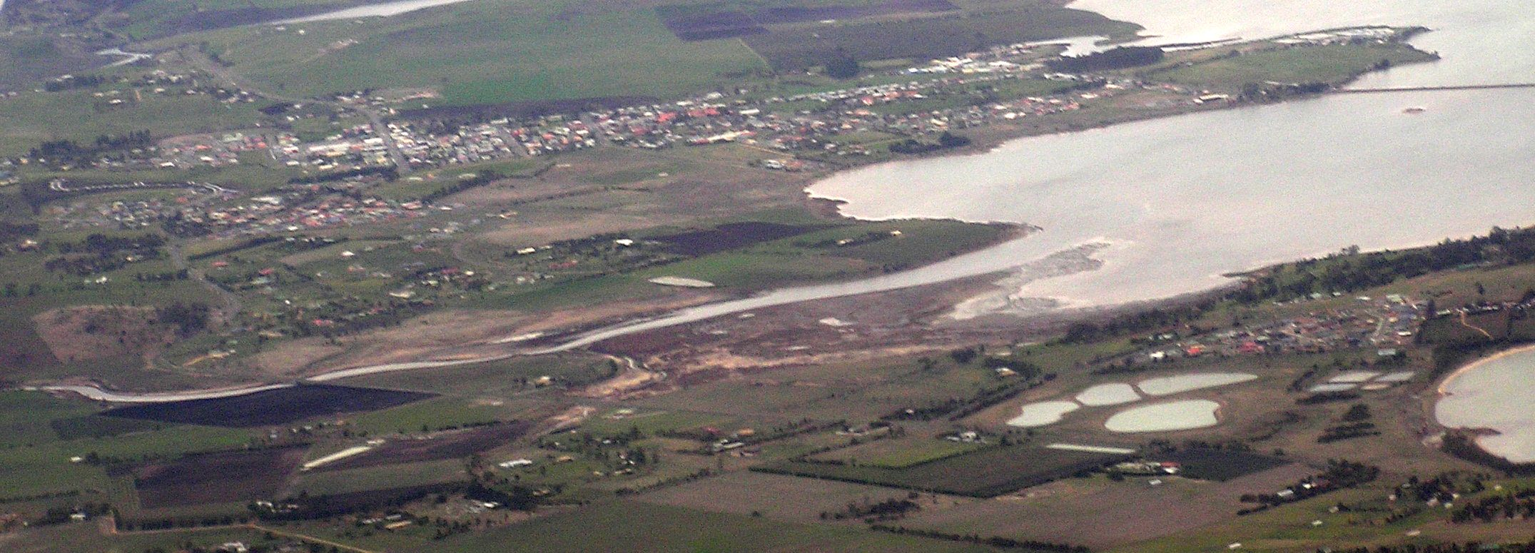 Aerial photo of Sorell Tasmania from north west